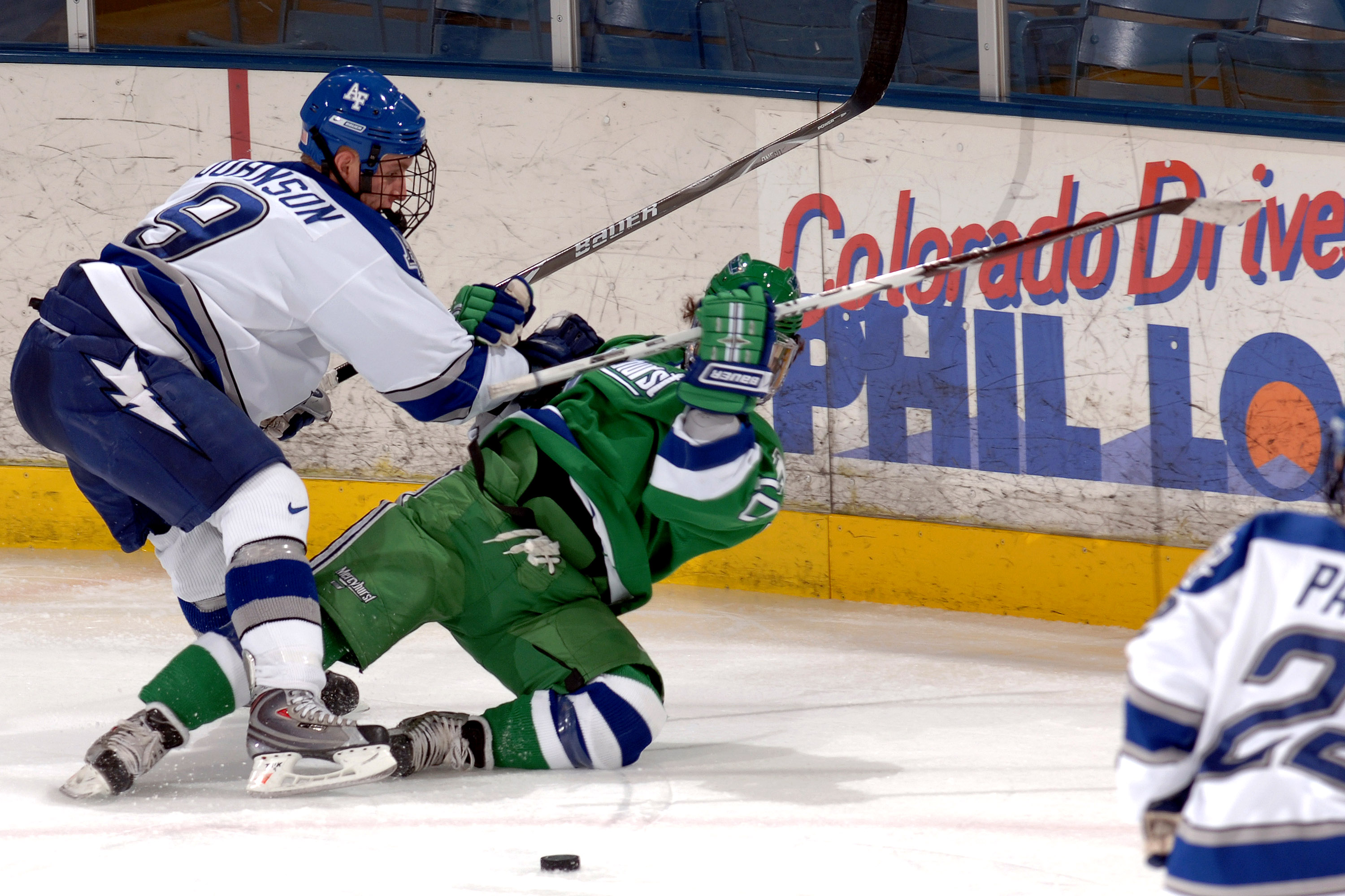 U.S. Air Force Academy sophomore defenseman Brandon Johnson jostles for the puck with Mercyhurst left wing Nick Vandenbeld at the Cadet Ice Arena in Colorado.